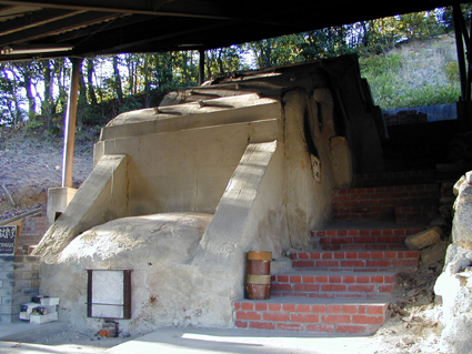 Noborigama Seto.